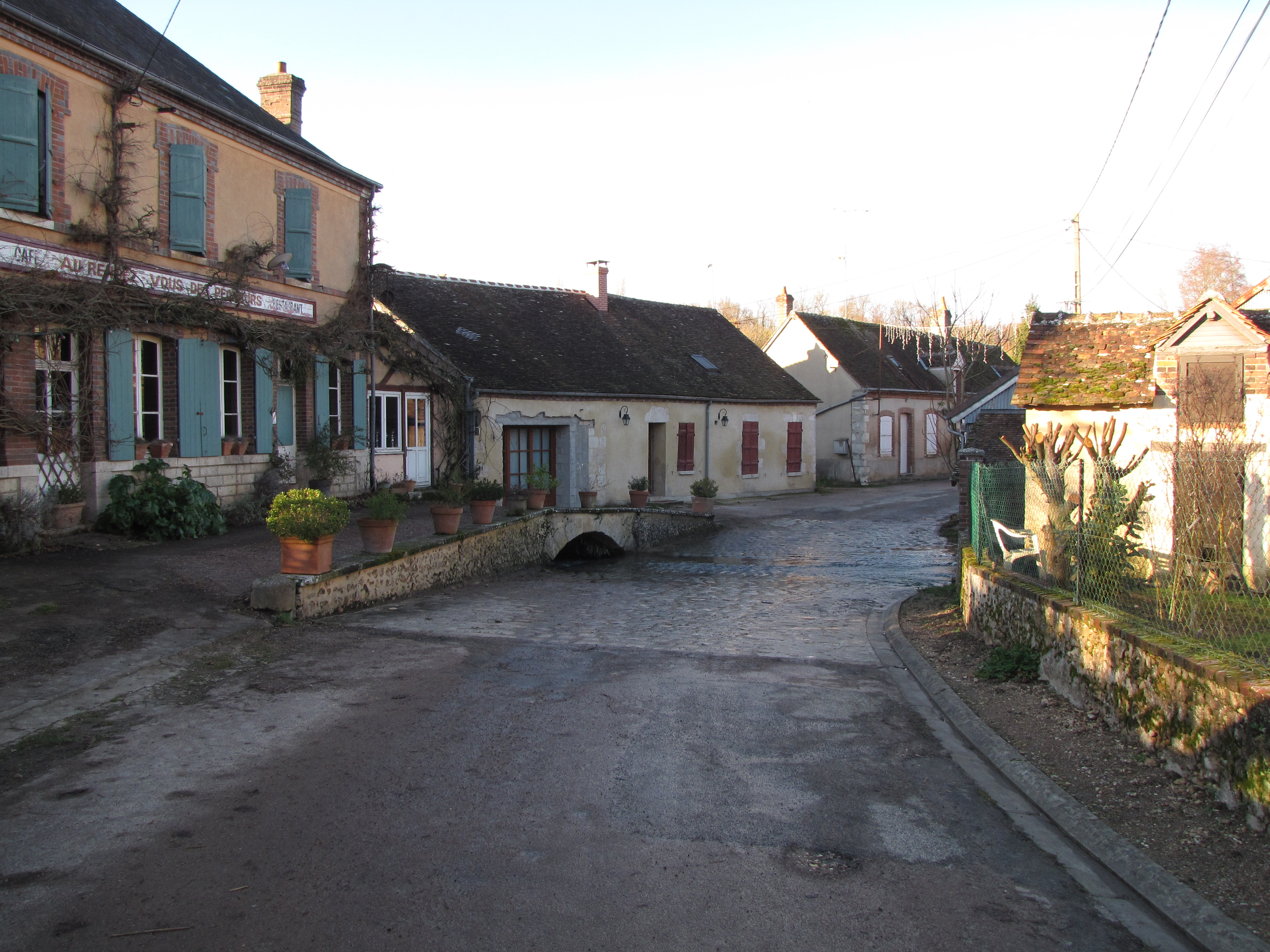 Fontainejean is 2 km east of Saint-Maurice-sur-Aveyron, Loiret, Centre region, France. Paved watersplash (ford) over the Aveyron river. Walkers cross it through the old café's terrace on the left of the watersplash.